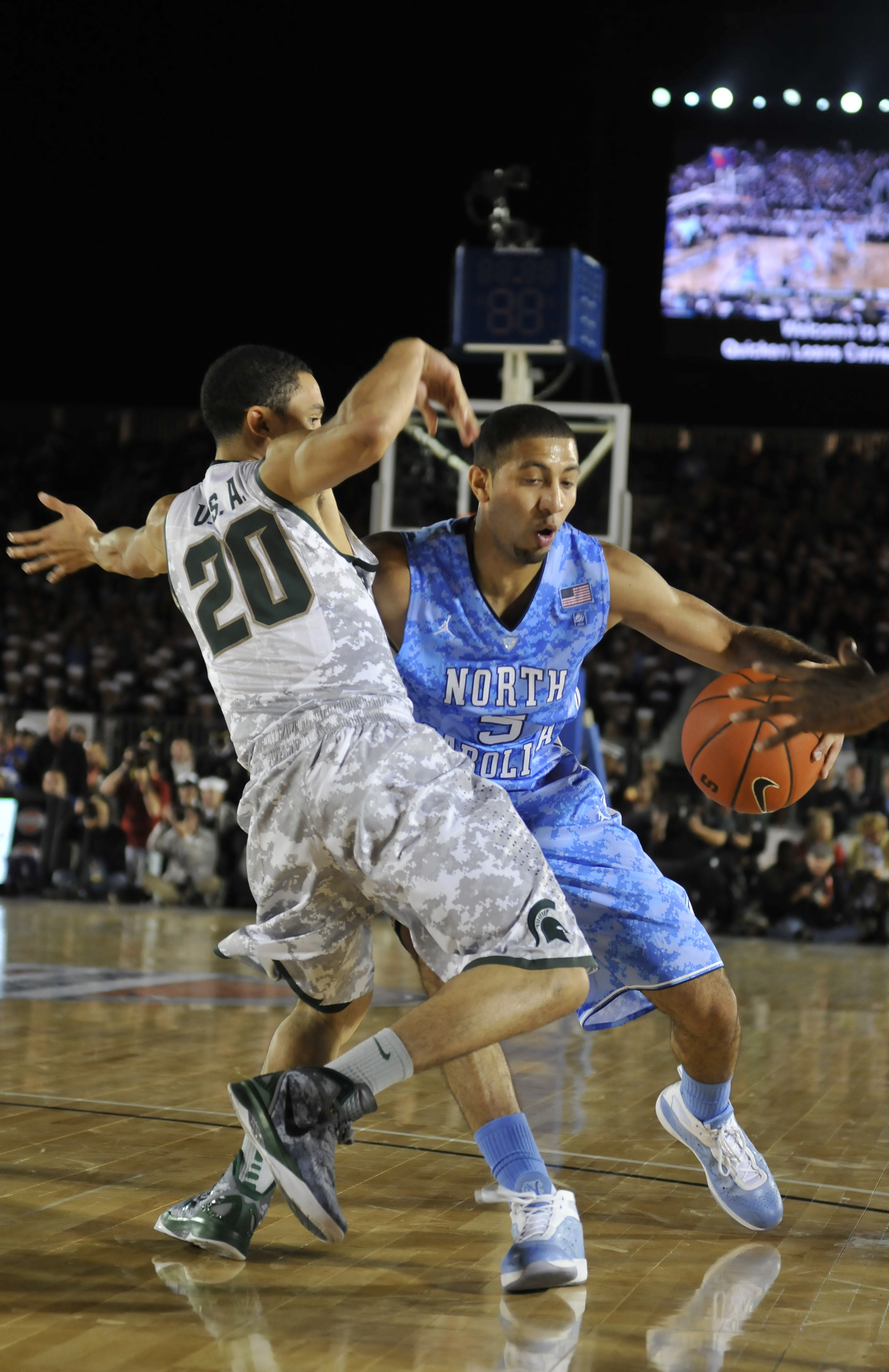 SAN DIEGO (Nov. 11, 2011) University of North Carolina guard Kendall Marshall (#5) drives the ball against Michigan State guard Travis Trice (#20) during the Quicken Loans Carrier Classic basketball game aboard the Nimitz-class aircraft carrier USS Carl Vinson (CVN 70). The inaugural Carrier Classic is a celebration of Veterans Day. (U.S. Navy photo by Mass Communication Specialist 3rd Class Roza Arzola/Released)